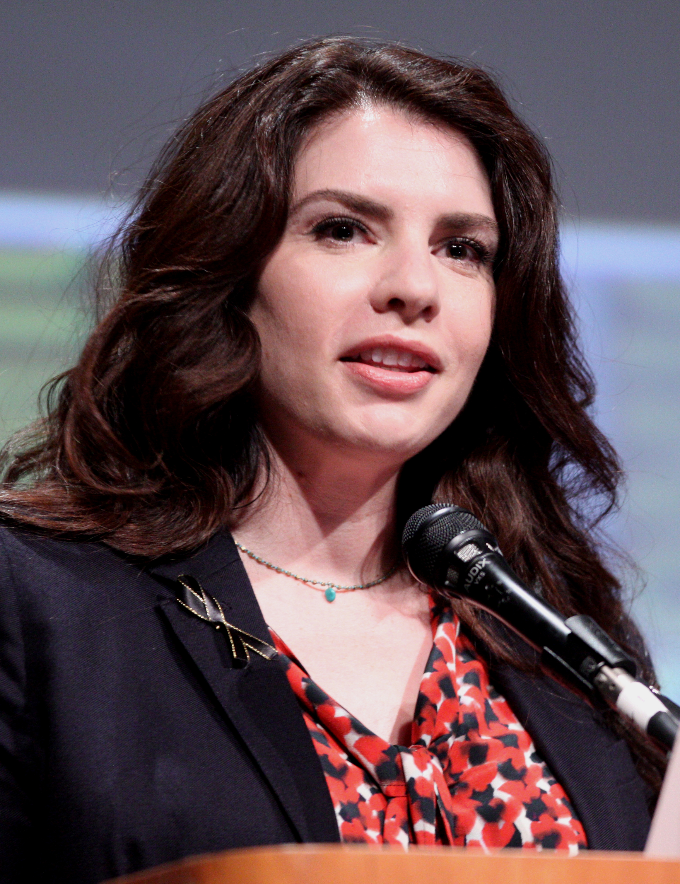 Stephenie Meyer at the 2012 Comic-Con in San Diego.